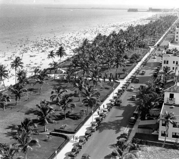 Bird's eye view of Lummus Park by the beach - Miami Beach, Florida